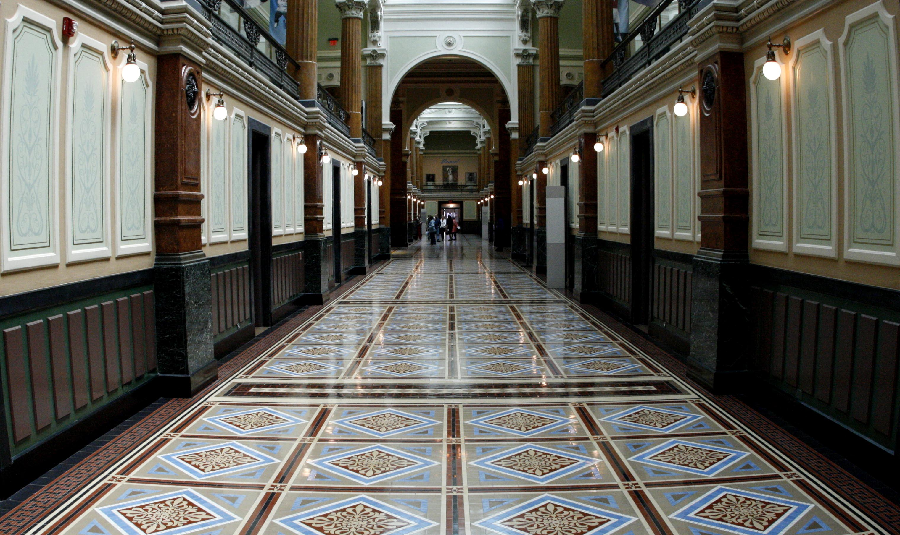 Once the largest room in America, the Great Hall was originally conceived to display miniature models required of inventors when the building housed the United States Patent Office. The space also served as the first national museum, and it was here that the Declaration of Independence was publically displayed between 1841 and 1871. The guests of Abraham Lincoln's second inaugural ball passed thru this room to join the receiving line in what is now called the Lincoln Gallery. Following a disastrous fire in 1877, which severely damaged other portions of the third floor of the building, this area was redone in the American Victorian Renaissance style to which it has now been restored.